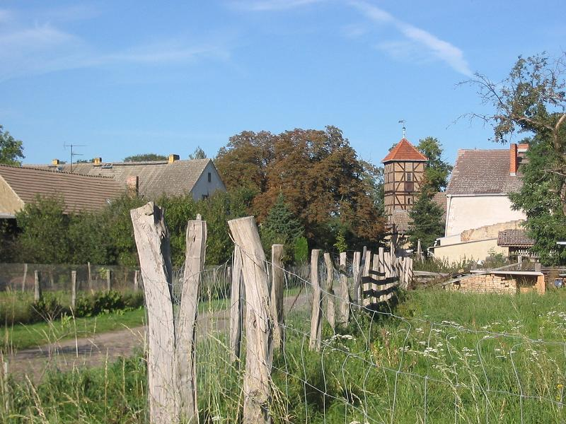 Stonechurch Neuendorf, built probably in 15th century. The village Neuendorf is a part of the town Brück in the district Potsdam Mittelmark, state Brandenburg, Germany. The village is situated on the north border of the „Baruther Urstromtal“ (glacial valley) subplateau Zauche.